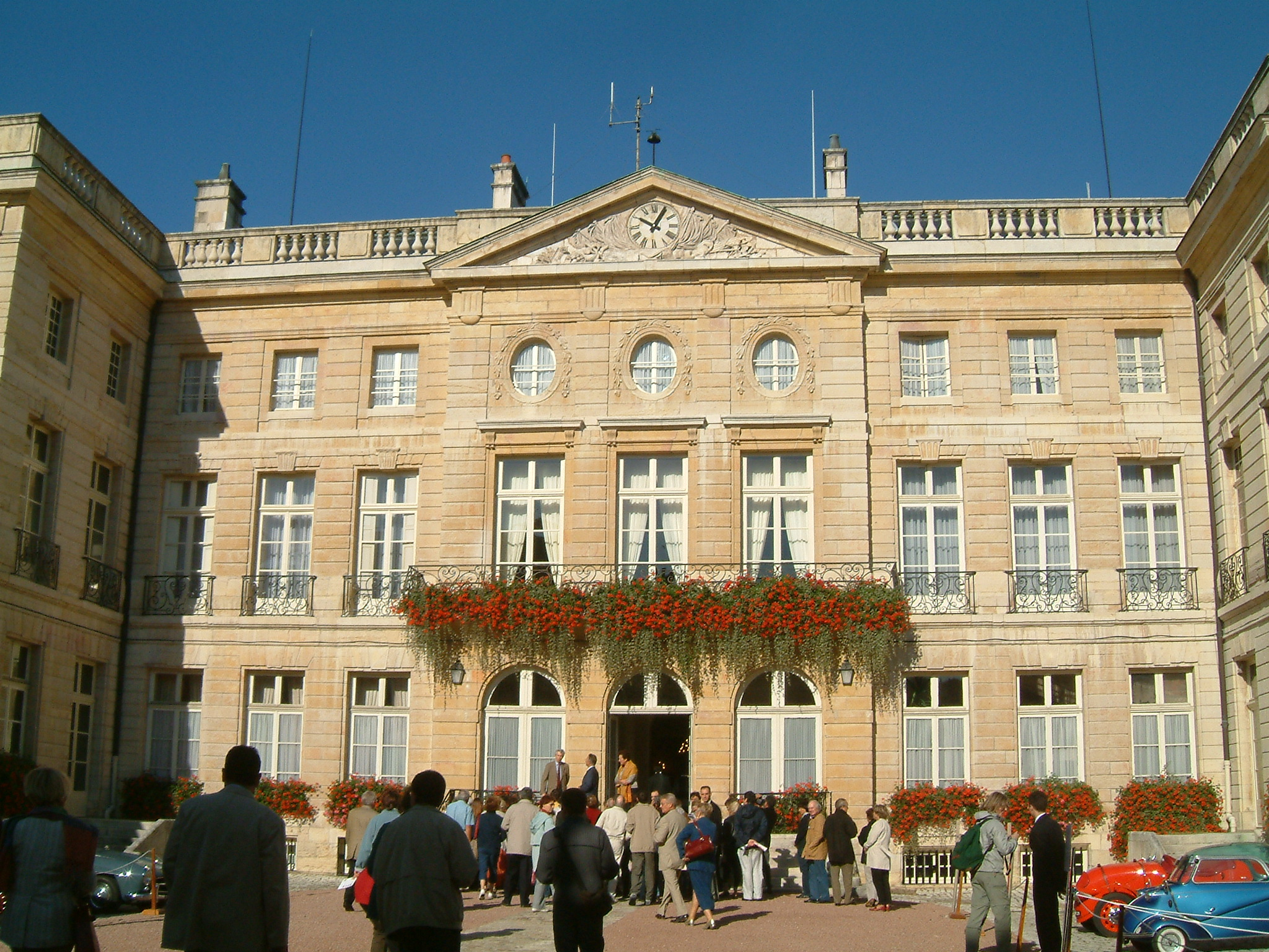 Dijon, Burgundy, France